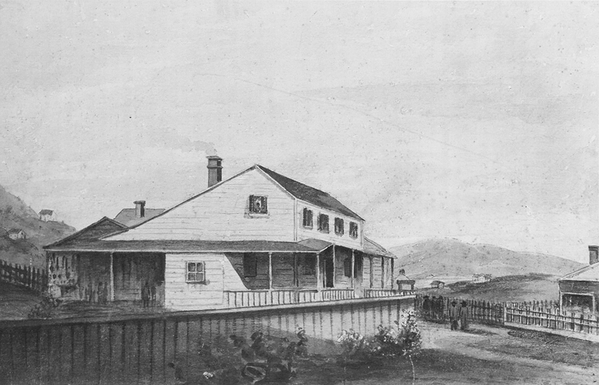 Francis Samuel Marryat. House of Sam Brannan, Washington and Stockton Streets, San Francisco, 1849. Watercolor, 8 3/4 x 13 1/2 in. The Frick Collection / Frick Art Reference Library Photoarchive.